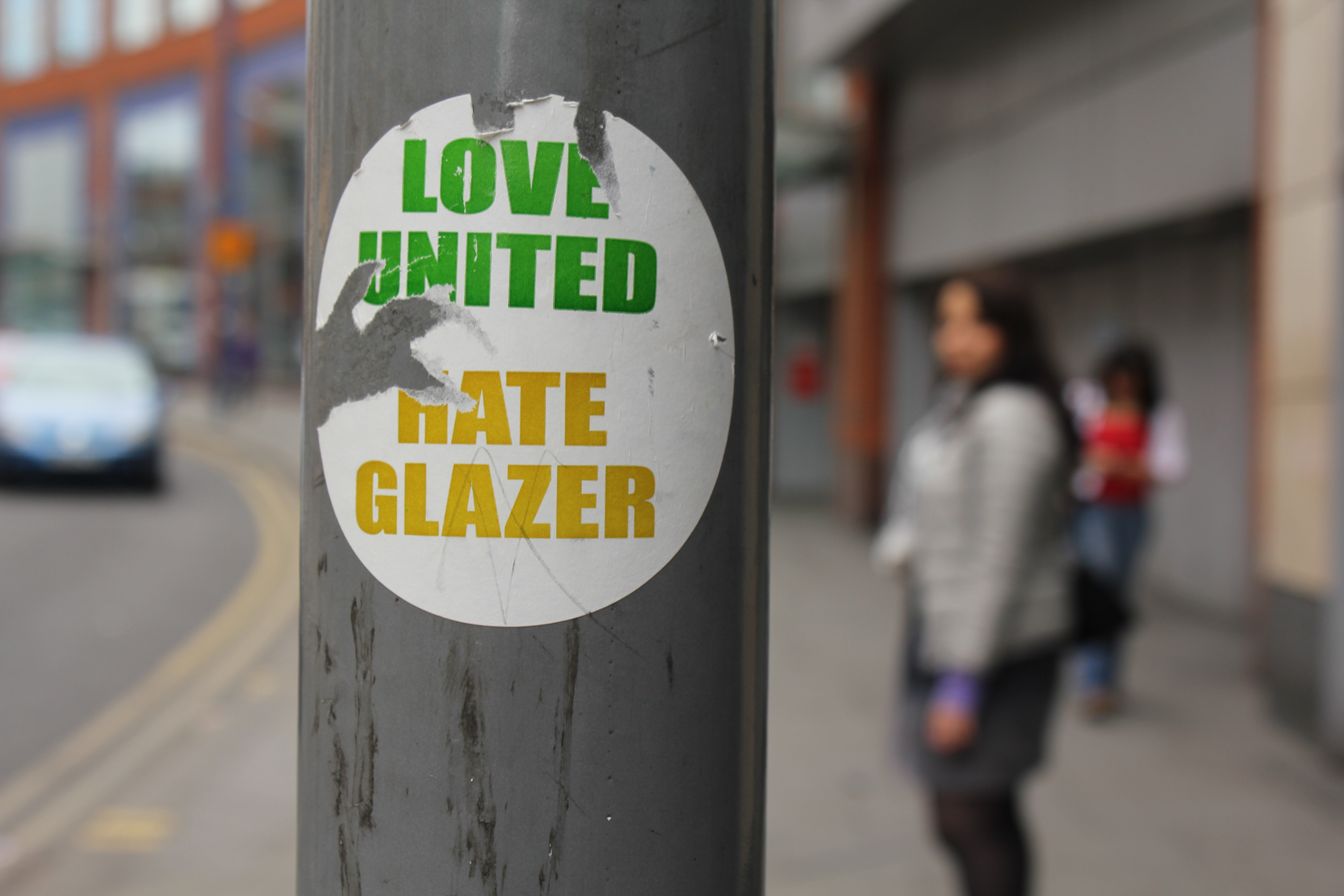 A "Love United Hate Glazer" sticker on a lamppost on Withy Grove, Manchester, UK